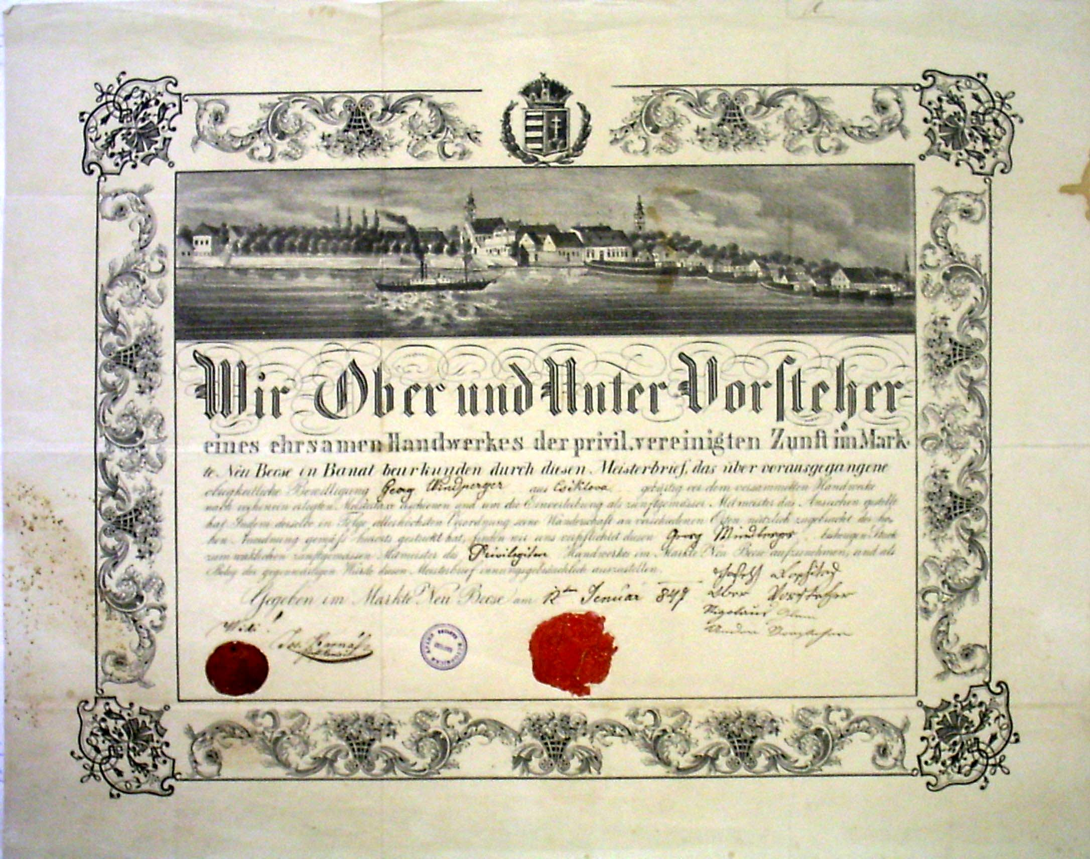 Master's letter, Novi Bečej